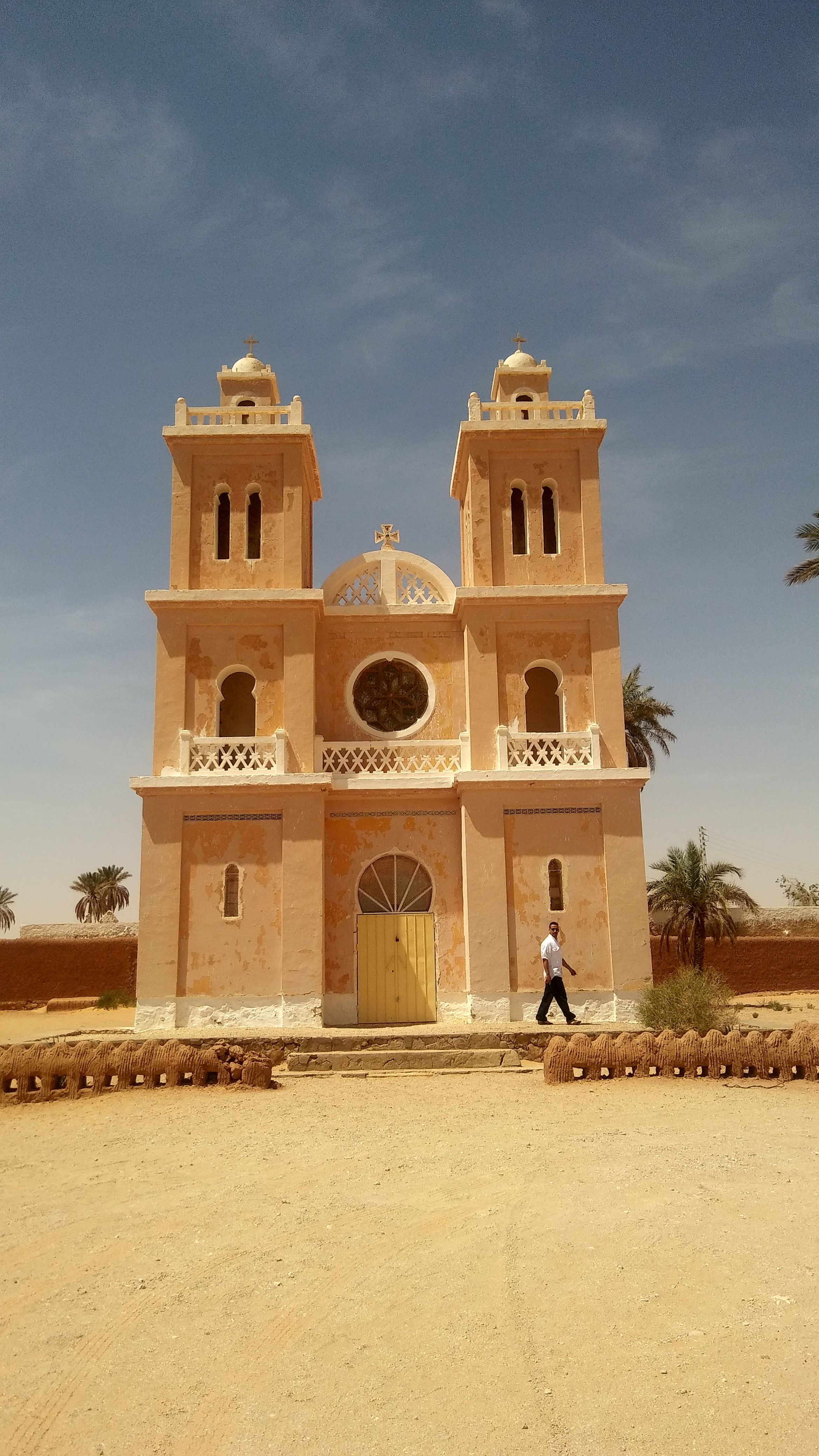 The Church In Elmnia